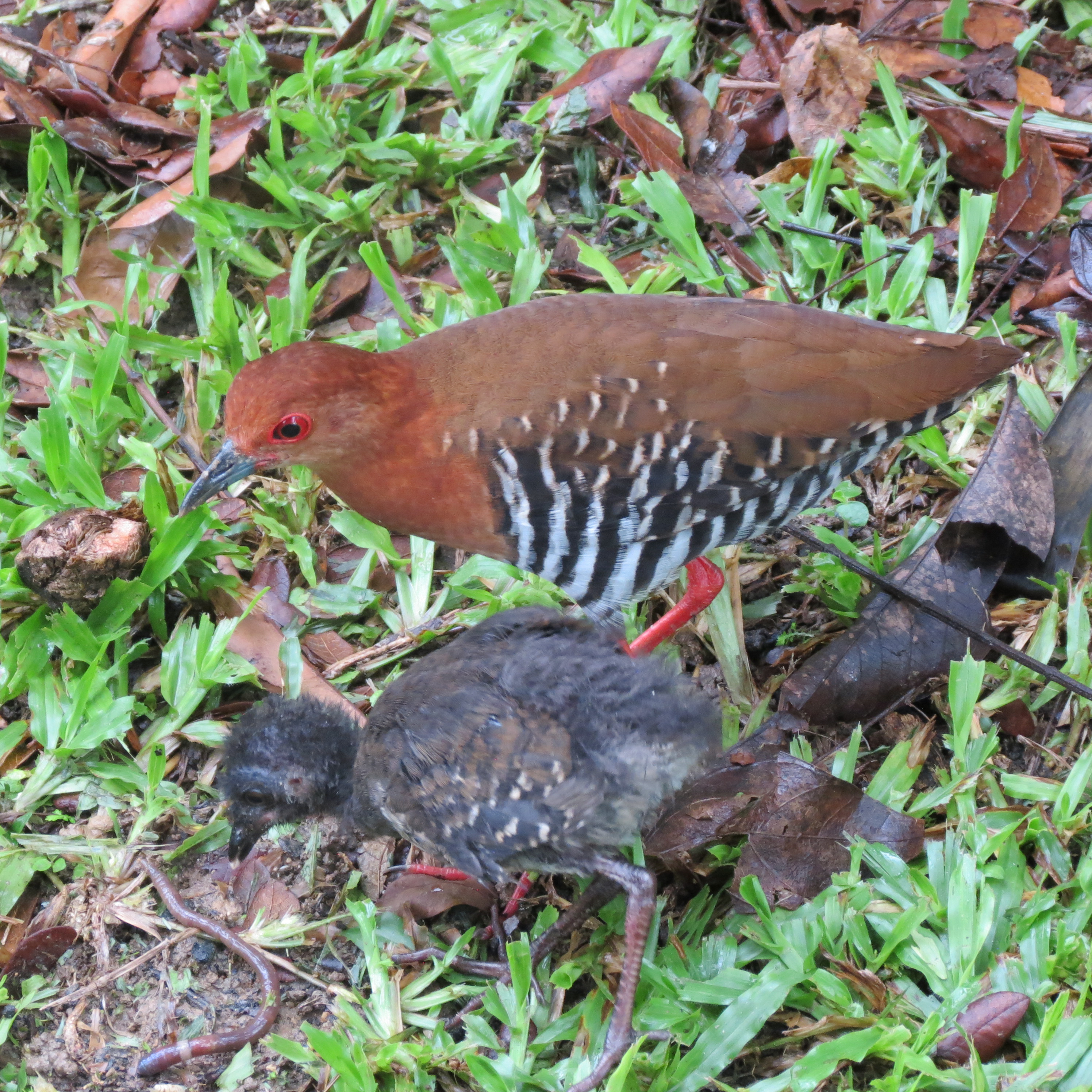 Adult red-legged crake and chick hunting for worms in the rain. A second chick was nearby, off-camera. Photographed in the heliconia walk at the Singapore Botanic Gardens.